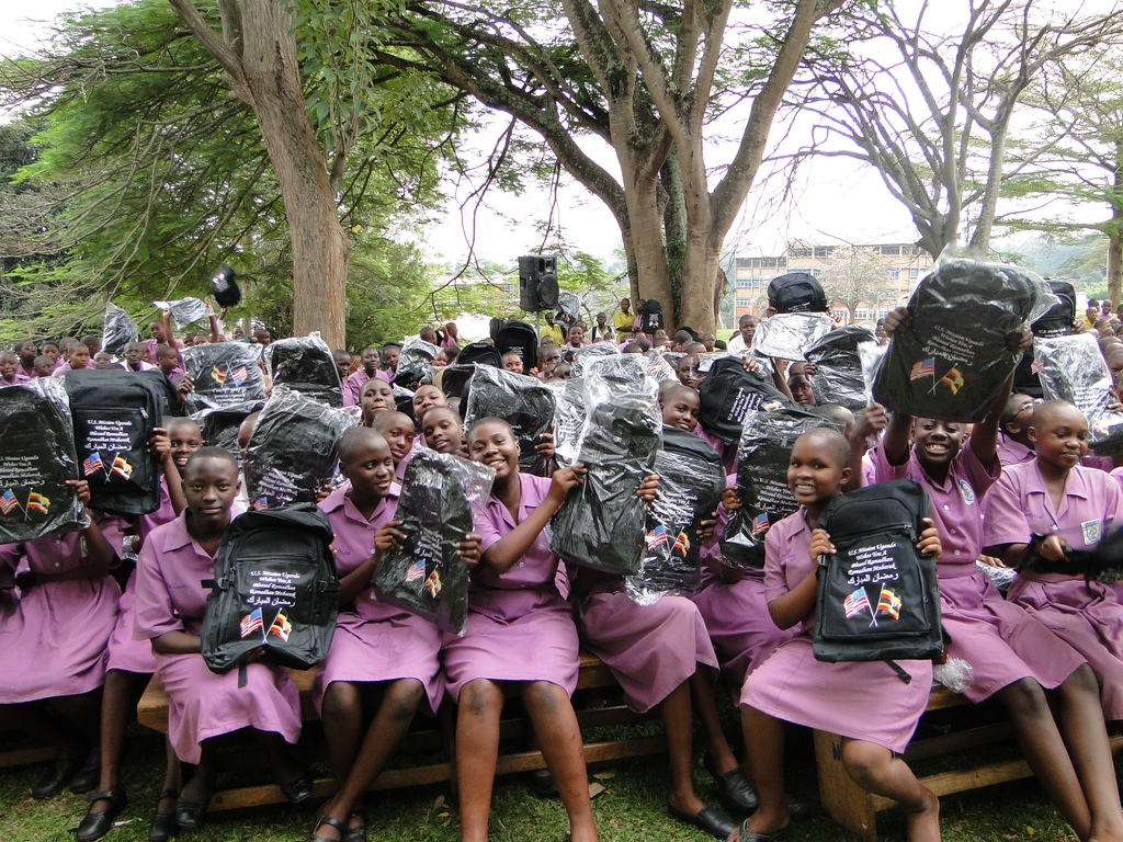 USAID provides Ugandan students with backpacks and other educational materials. (USAID)